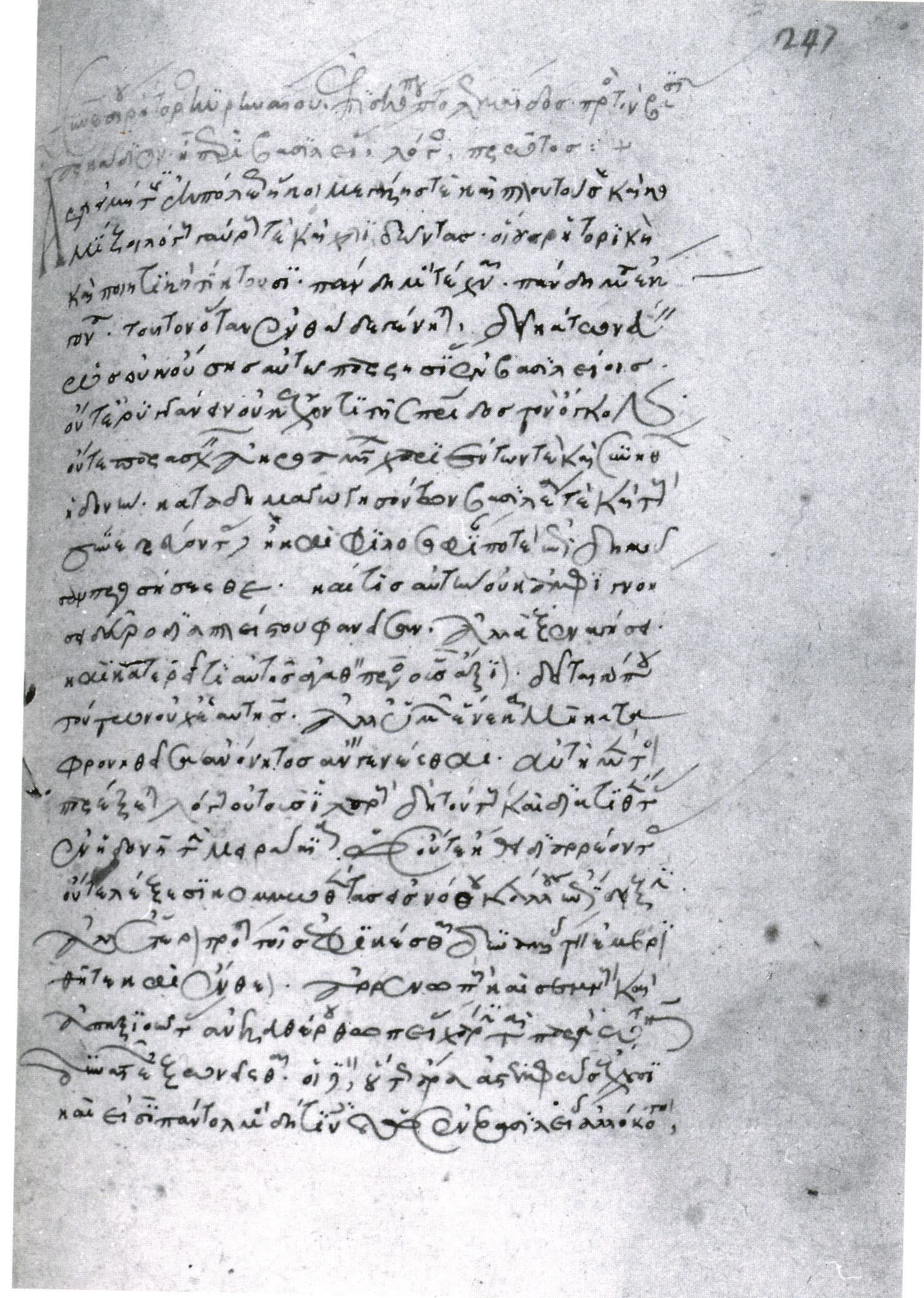 Synesius, „De regno“. Manuscript belonged to Basilios Bessarion. Manuscript Venice, Biblioteca Nazionale Marciana, Ms. gr. 264, fol. 247r.